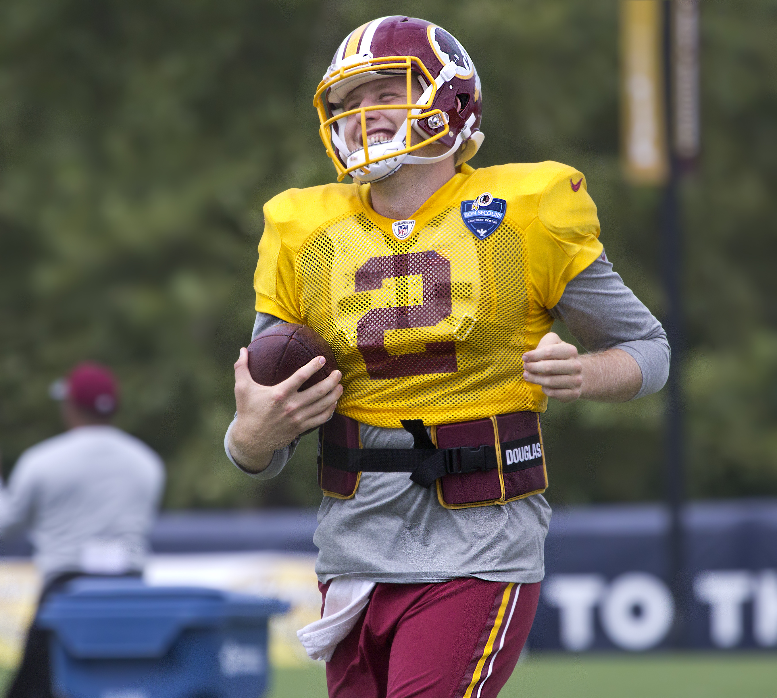 Washington Redskins Richmond Training Camp NFL Football